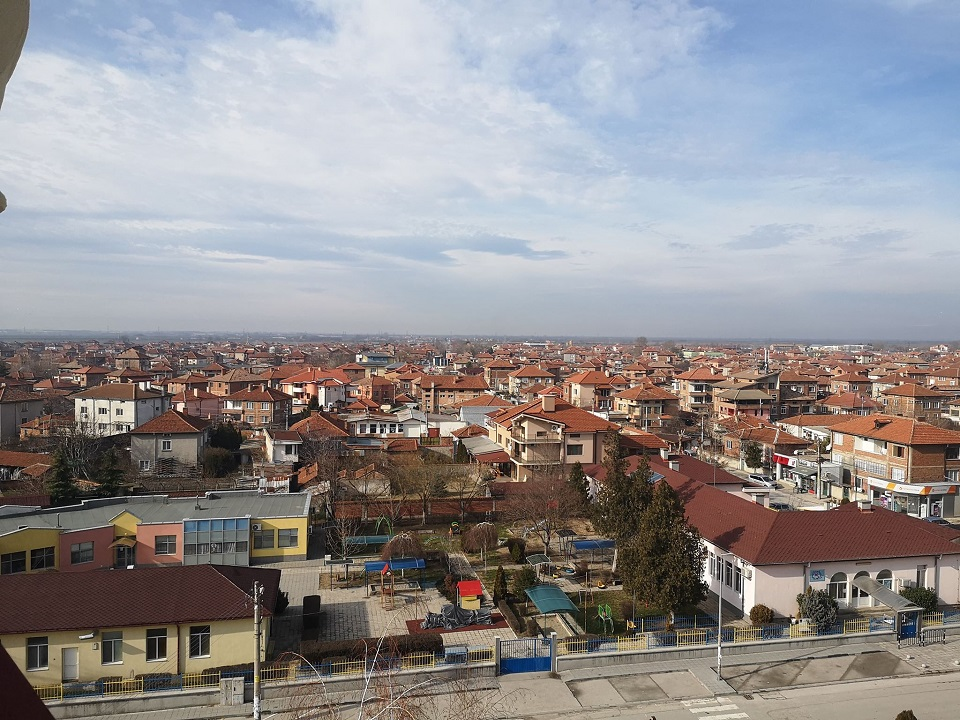 Sekirovo quarter view